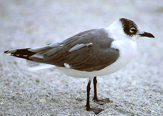 Leucophaeus pipixcan adult winter plumage. Redington Shores, Pinellas Co., Florida 02/1999.